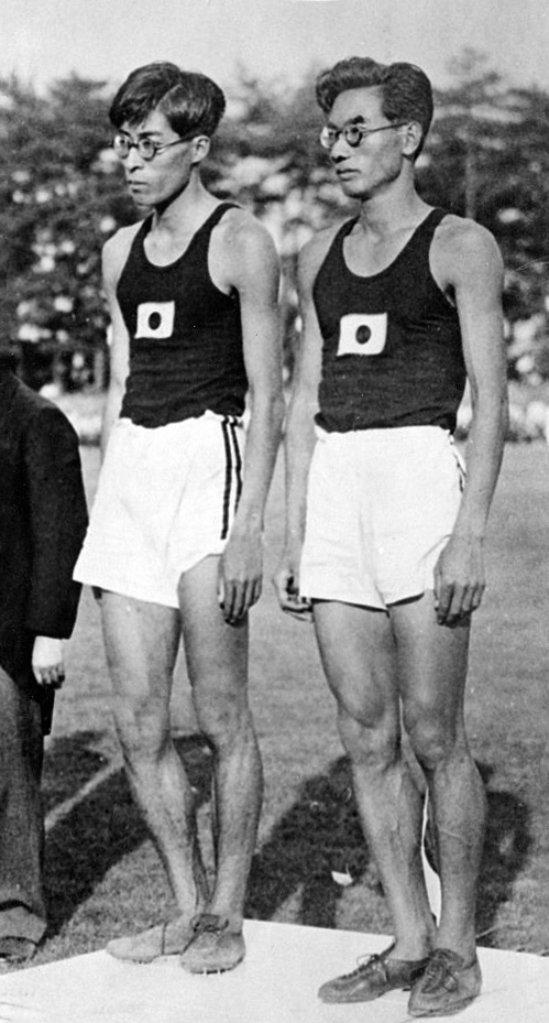 Triple jumper Masao Harada and Kenkichi Oshima are seen during the Japan-U.S. Athletic Meet at Koshien Athletic Stadium on September 16, 1934 in Nishinomiya, Hyogo, Japan.